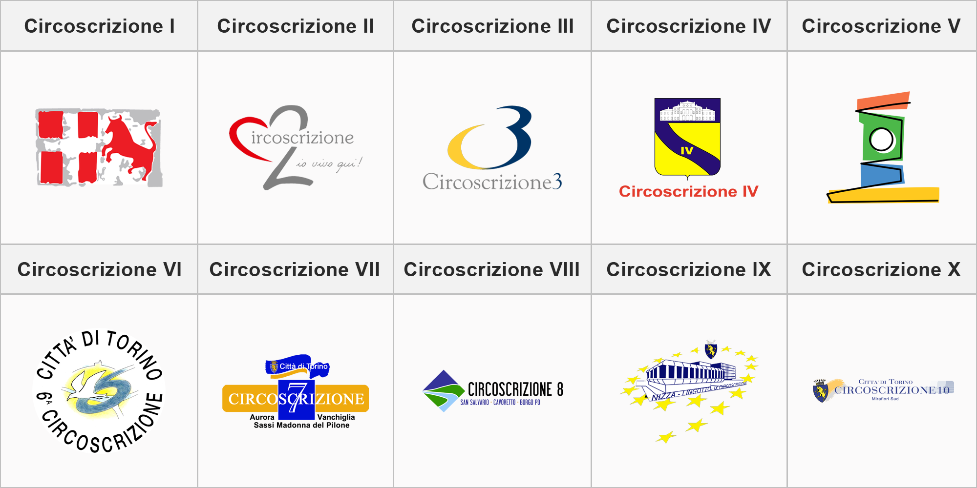 Coats of Arm of circoscrizioni (administrative suddivision) of Turin